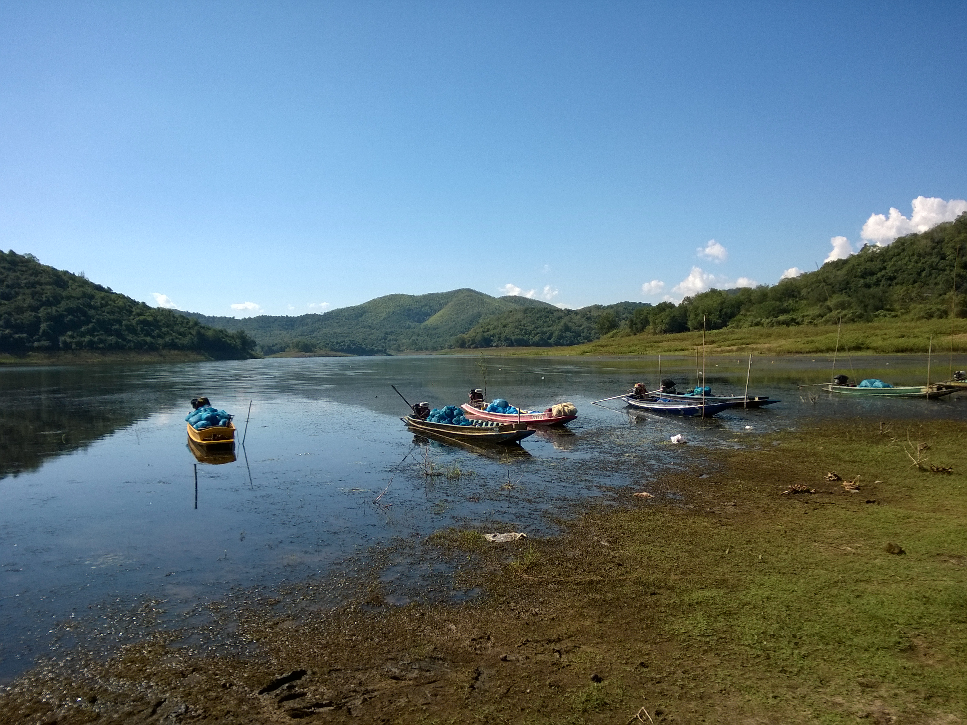 boats at Kaengkrachan lake, Kaengkrachan National Park, Phetburi, Thailand